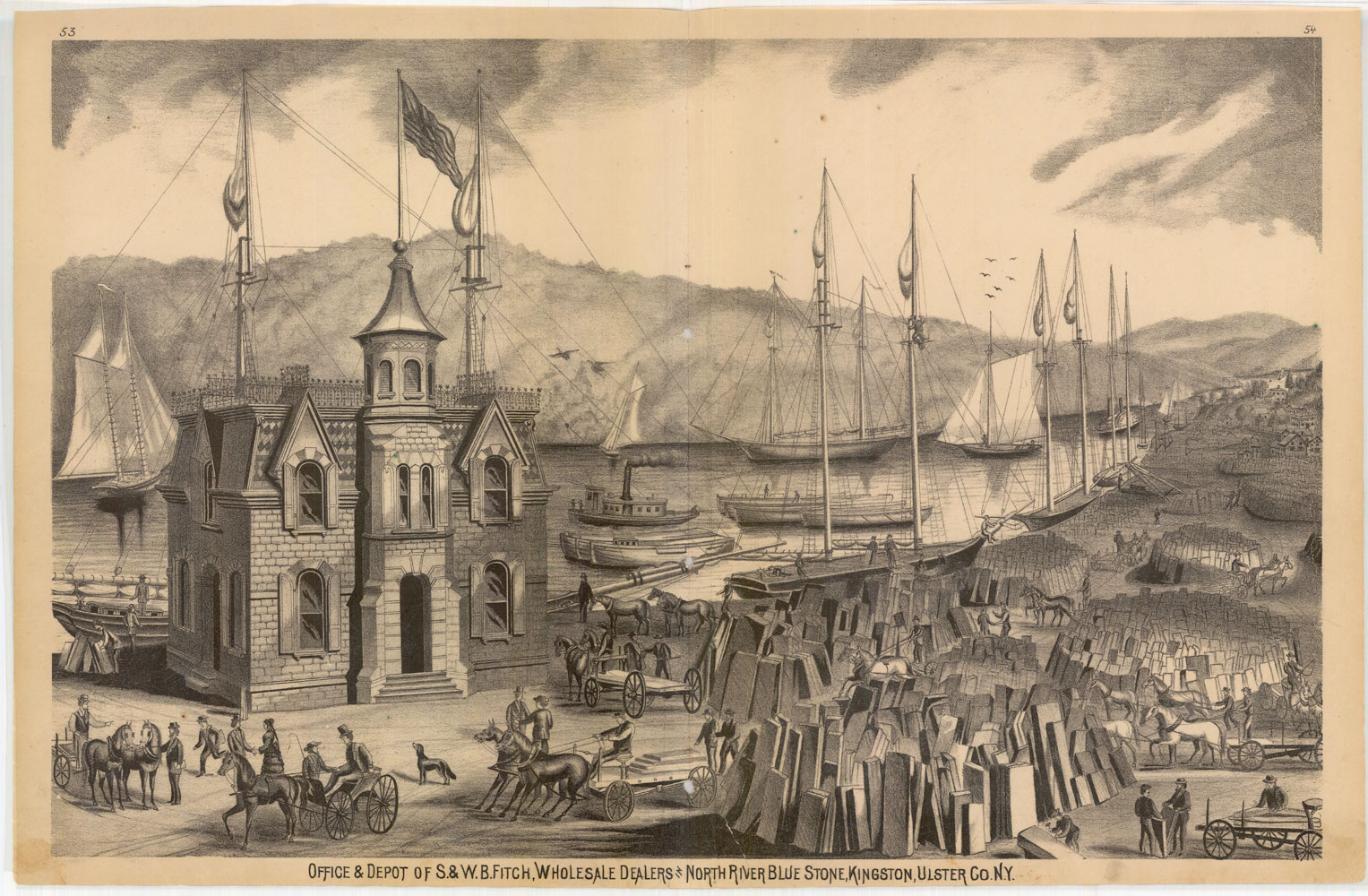 Scanned page of an atlas of Ulster County, New York prepared by F. W. Beers and first published in 1875. The house still stands at 545 Abeel Street